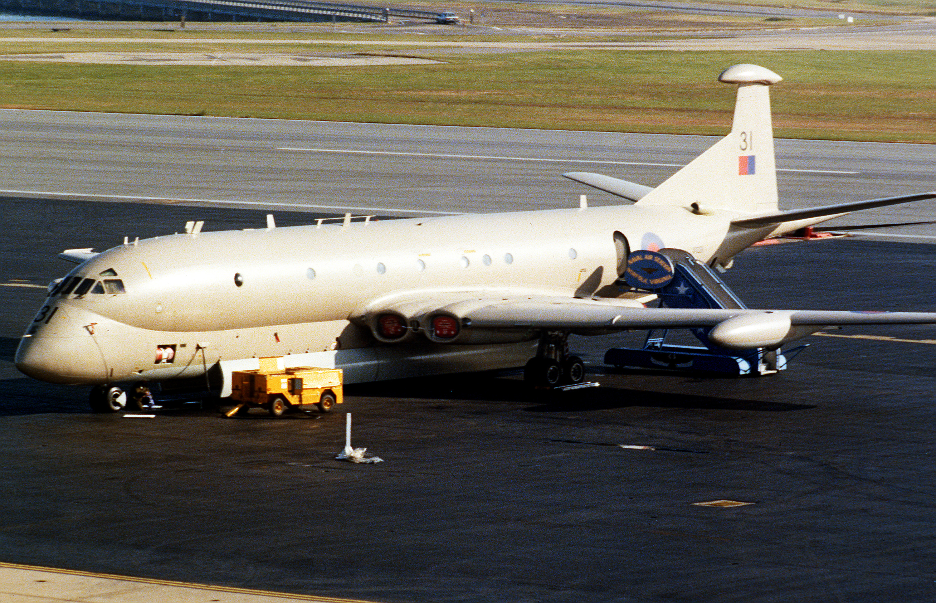 A Royal Air Force Hawker Siddeley Nimrod MR.2 (s/n XV231) serviced on the flight line at the U.S. Naval Air Station Norfolk, Virginia (USA), on 17 January 1984.